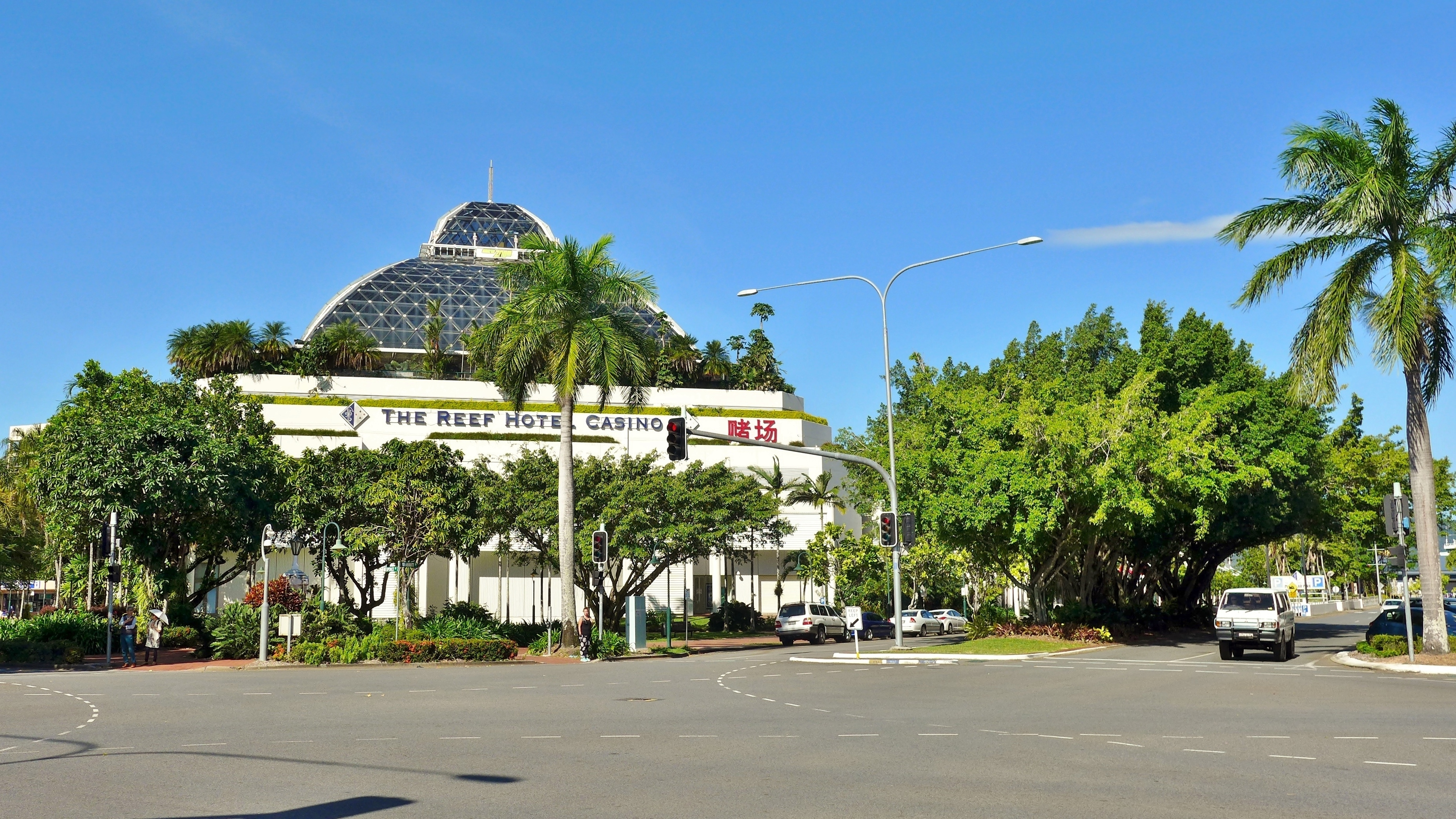 View of the The Reef Hotel Casino, Cairns, Far North Queensland, Australia.